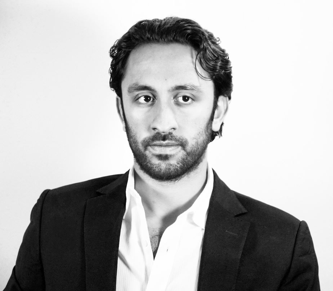 Headshot of Canadian filmmaker Pasha Eshghi